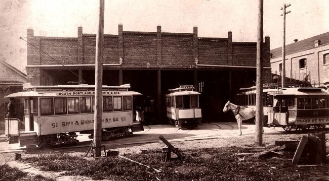 The City & Suburban Railway's Savier Carbarn, at 23rd & Savier, Portland, Oregon, with ex-Transcontinental Street Railway Company horsecar No. 22 and three new electric streetcars built by the Pullman Palace Car Company. Horsecar operation in Portland ended the following month, in June 1892.